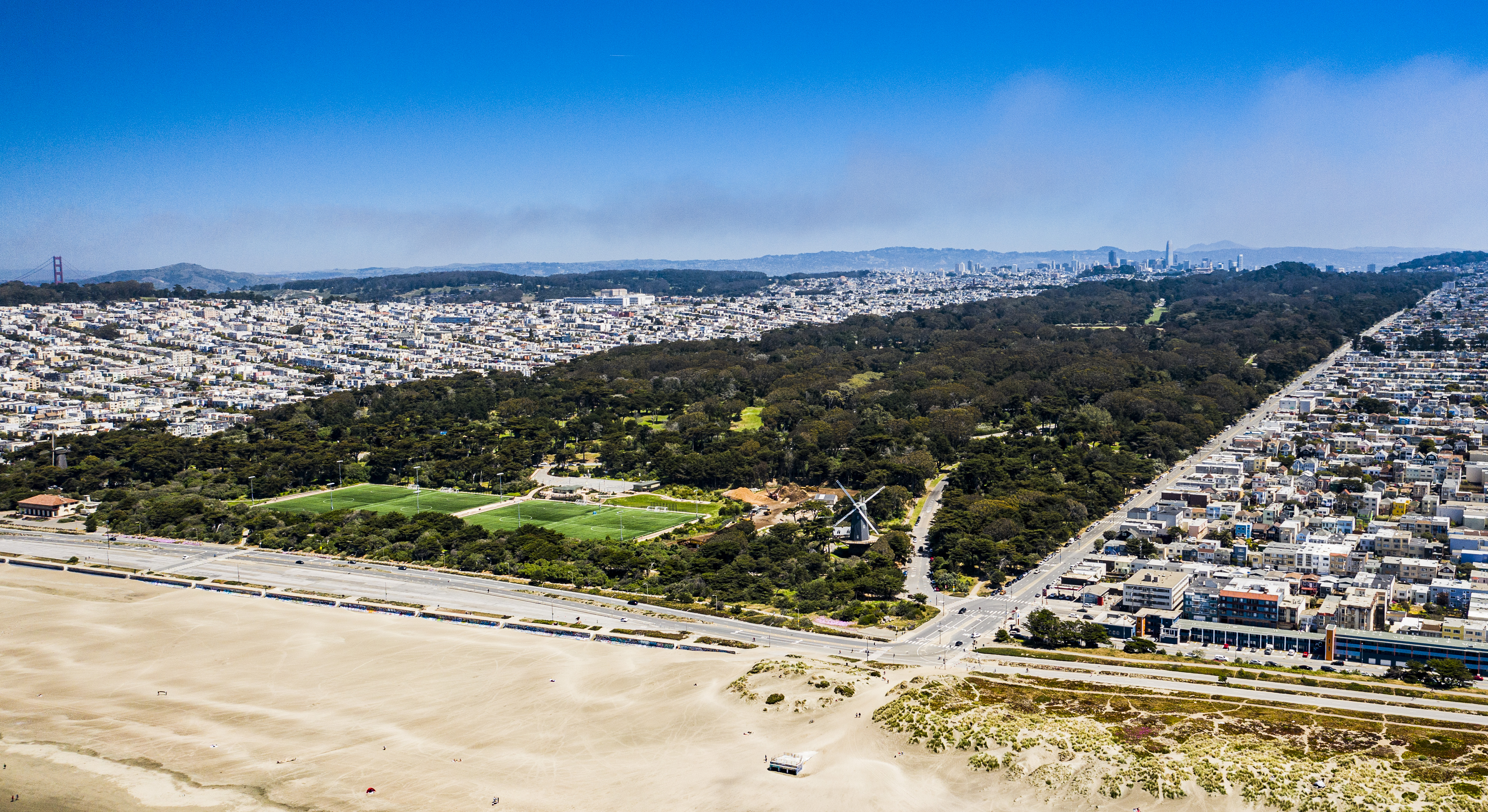 Aerial photograph of the Golden Gate Park with the skyline of San Francisco in the background taken from DJI Mavic 2 Pro drone.